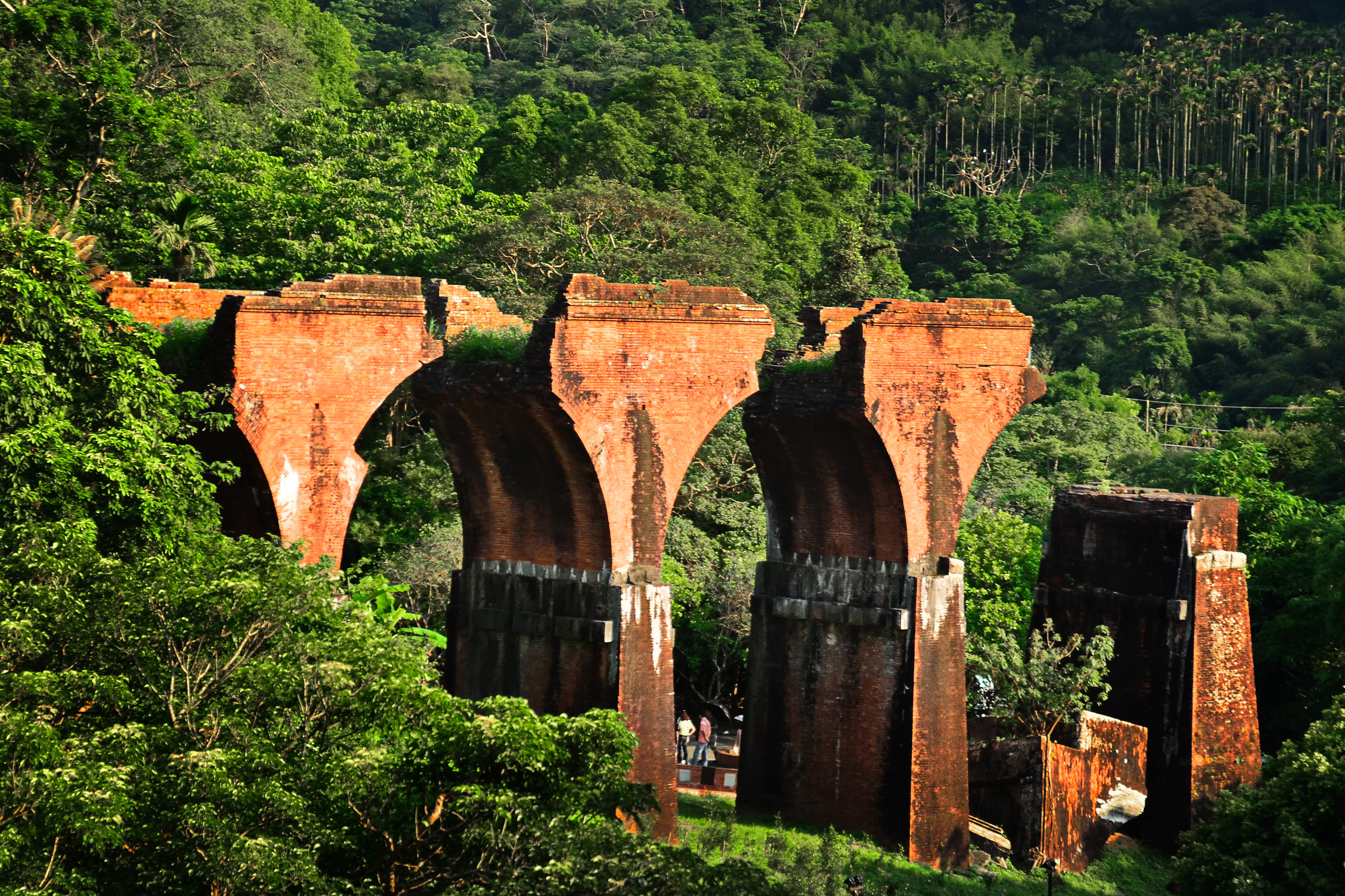 Yutengping Bridge (Longteng Bridge) Sanyi, Miaoli County, Taiwan.